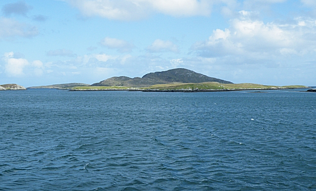 Islands in the Sound of Barra I think the nearest one is Lingaigh, and the hill is on Fudheidh. The near end of Lingaigh is in square.